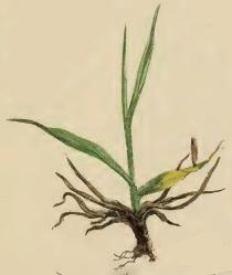 Stainton’s Natural History of the Tineina (1855–1873): Coleophora lixella a plant of Briza media with mined leaf and a larval case attached